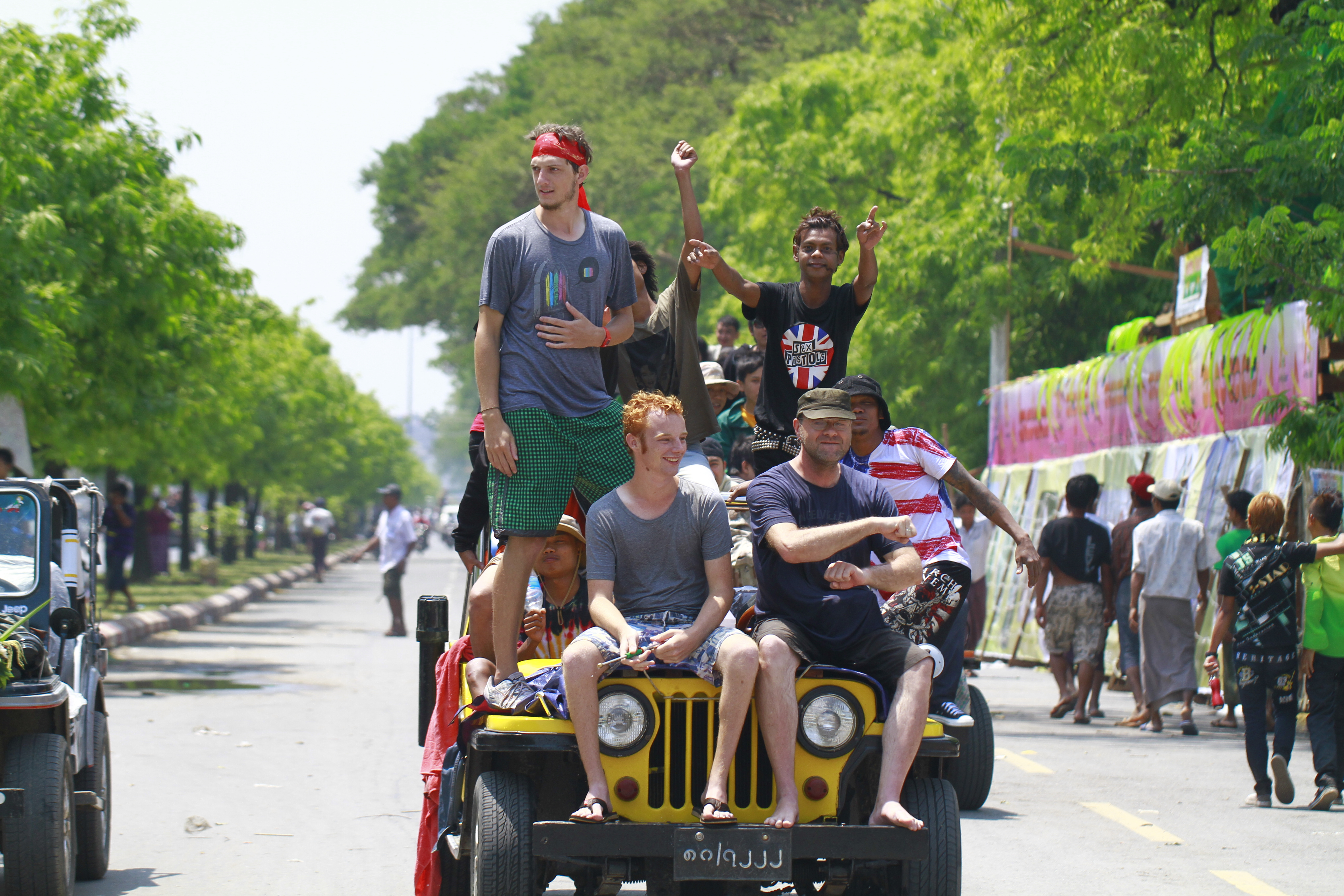 Tourists enjoy Myanmar New Year Thingyan Water Festival in Mandalay, Myanmar on 12 April 2012.